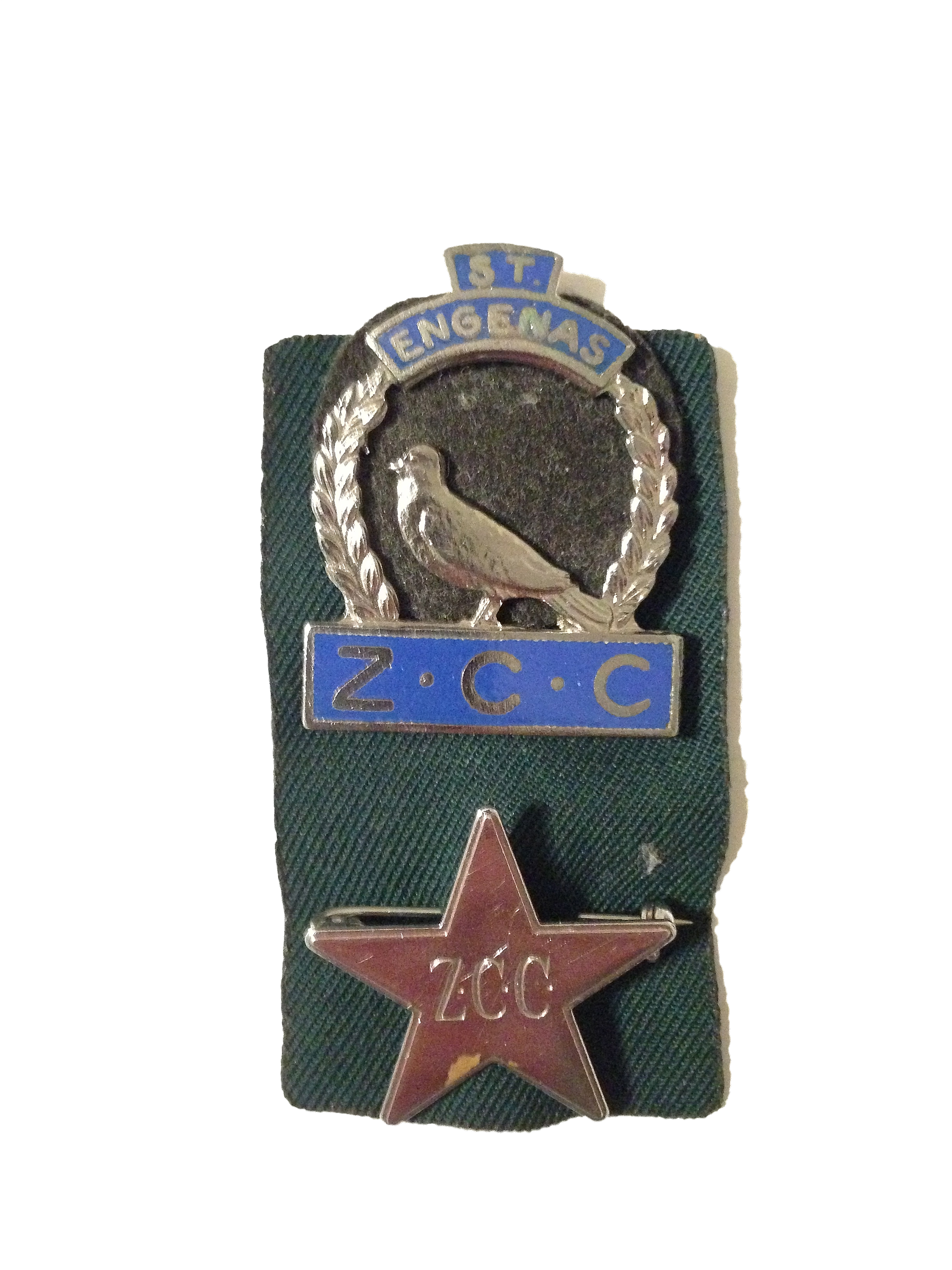 Zion Cristian Church St. Engenas and Star medals on Green background.